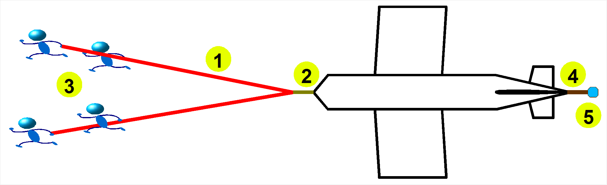 Sketch of a glider bungee launch.